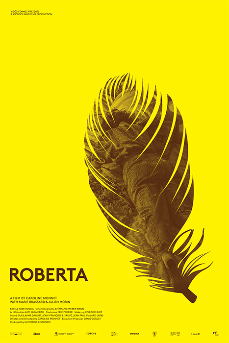 Poster of the movie Roberta (Q64817487)